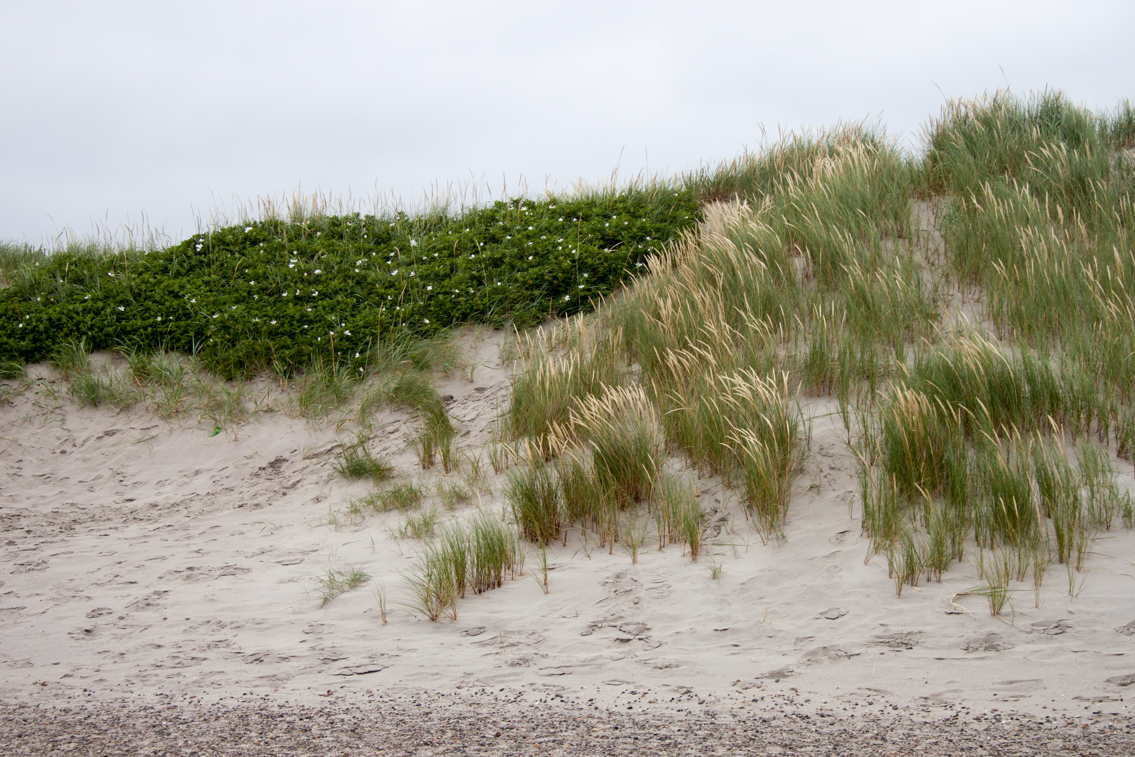 Flowers on the dunes, Grenen